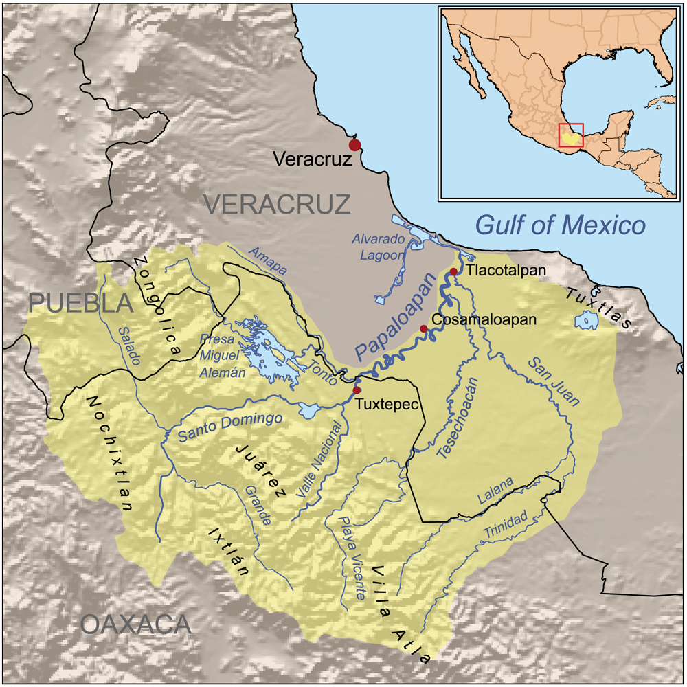 This is a map of the Papaloapan River drainage basin. It is based on USGS and Digital Chart of the World data with Rand McNally and Prentice Hall Atlases used as reference.